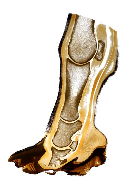 TTT sheet plastinate of a horse with severe chronic laminitis